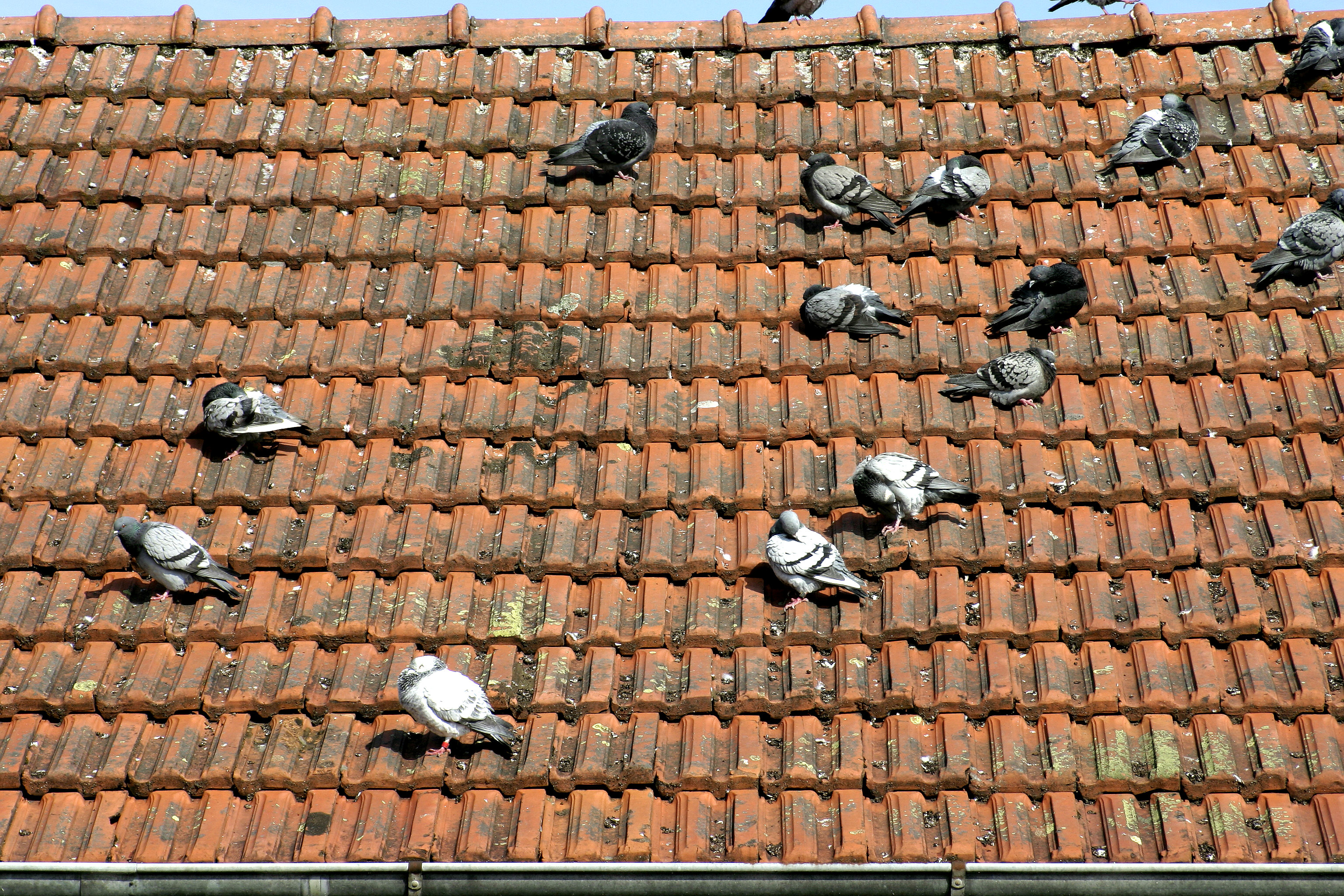 Roof with pigeons